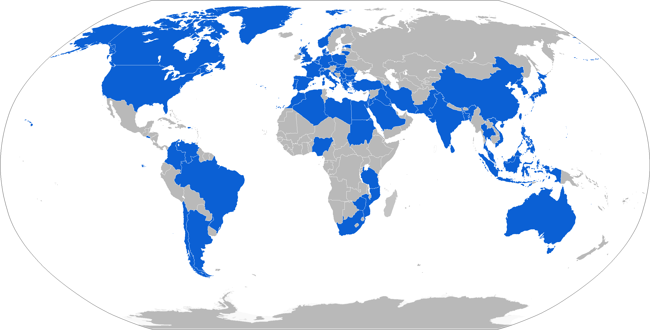 Map depicting countries which have purchased foreign licenses to manufacture arms and/or ammunition. Information obtained from Small Arms Survey 2007: Licensed and Unlicensed Military Production and the Trade Registers of the Stockholm International Peace Research Institute (SIPRI).